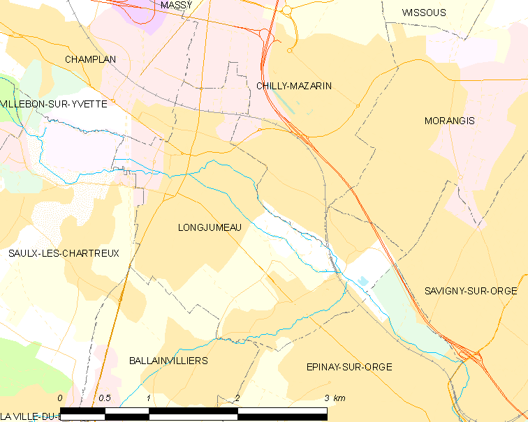 Map of French municipality Longjumeau